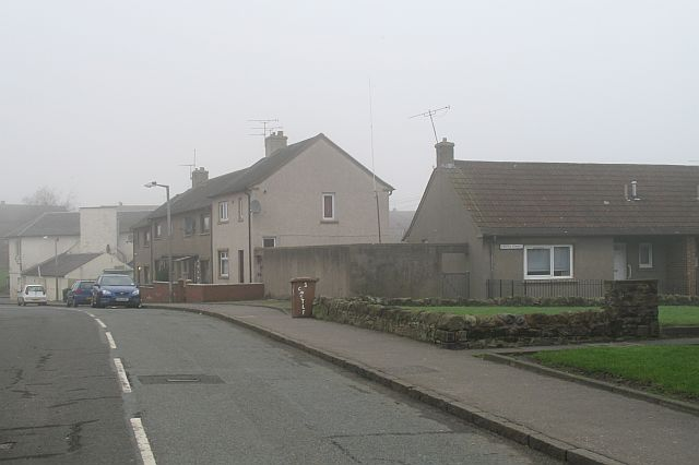 A misty day in Coalsnaughton, Clackmannan, a former coal-mining village